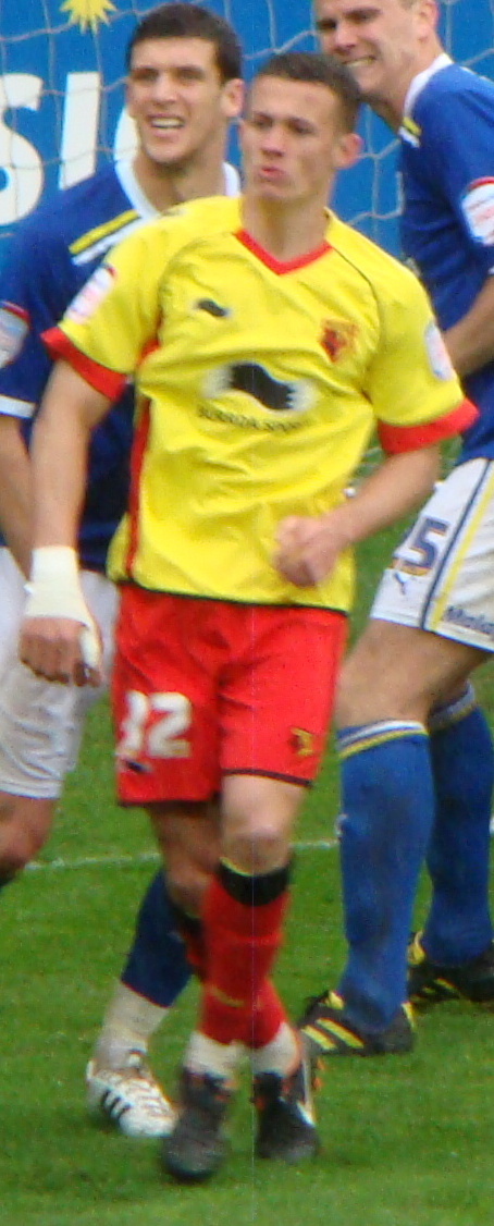 09/04/12 Cardiff v Watford, Championship, Cardiff City Stadium, Cardiff, Wales